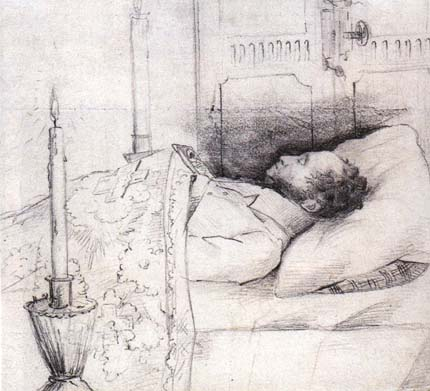 Pushkin deathbed